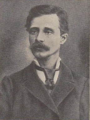 A portrait of Grigor Parlichev